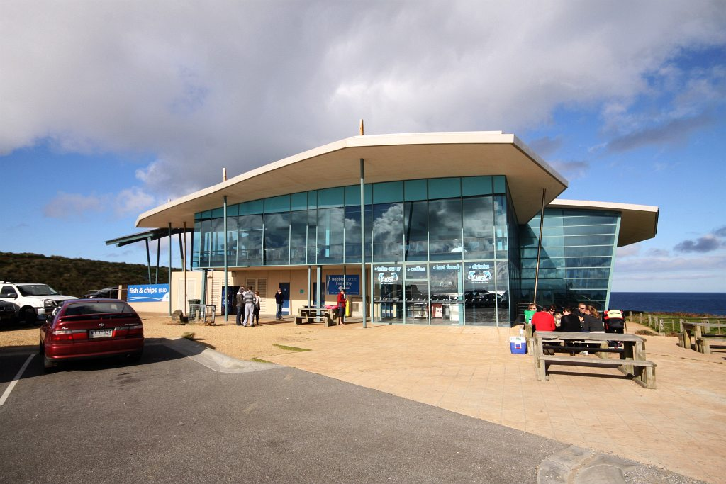 Exterior of the Nobbies Centre, Phillip Island, Australia. Once known as the Seal Rocks Sea Life Centre, it overlooks The Nobbies and Seal Rocks.